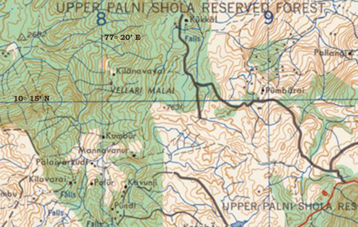 Upper Palani Reserve Forest topographic map